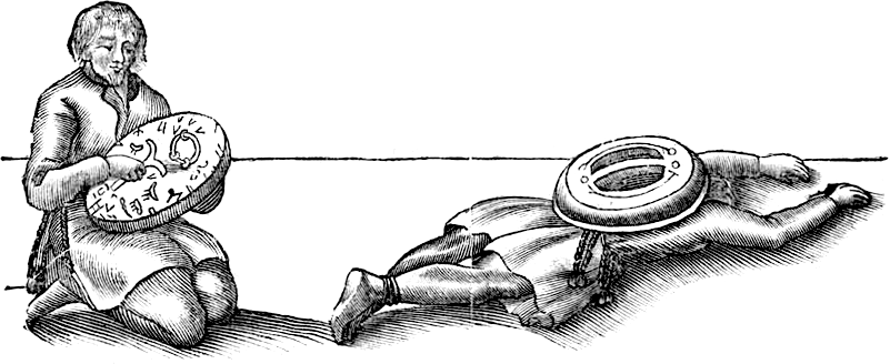 Sami shaman with his drum, as illustrated in Johannes Schefferus' Lapponia (1673).